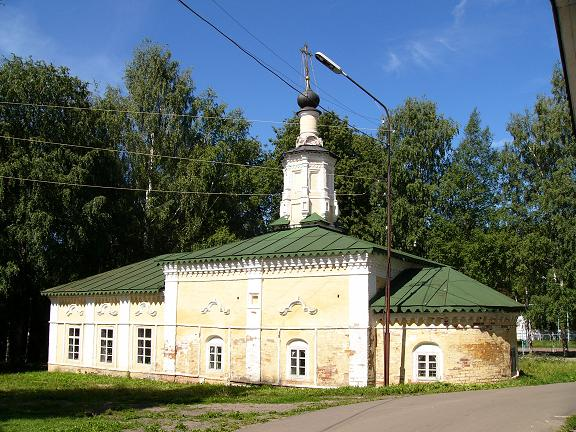 Veliky Ustyug. Mikhailo-Arkhangelsky Monastery